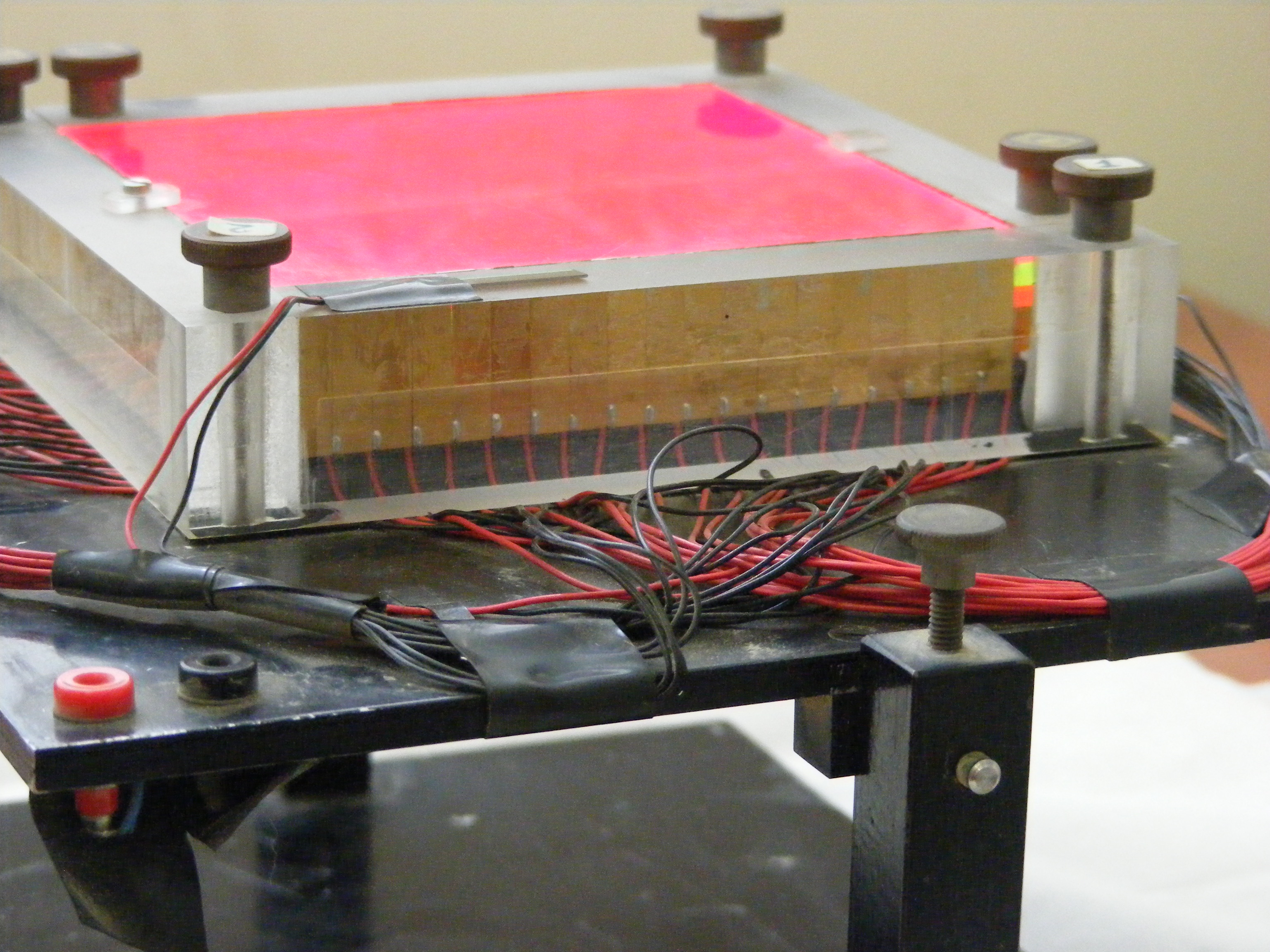 Working model of luminescent solar concentrator